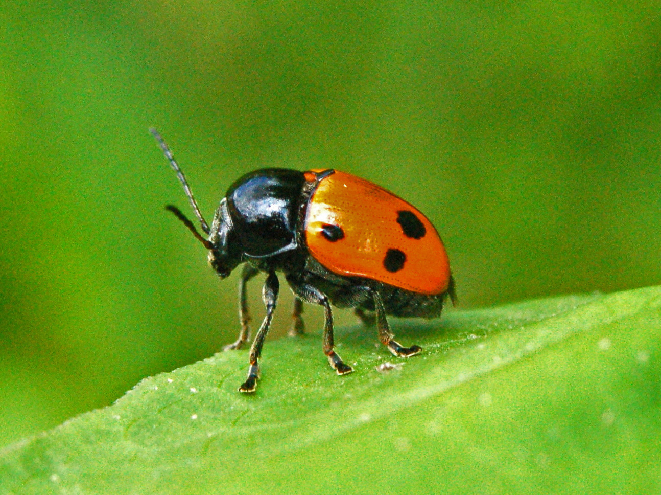 Chrysomelidae - Cryptocephalus trimaculatus, Vi Superiore, Genova, Italy